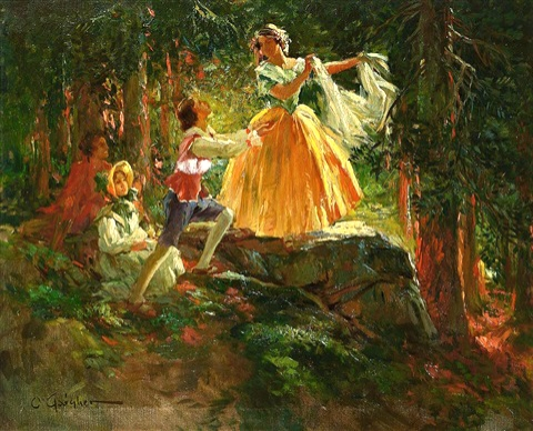 Theater Company in the Forest